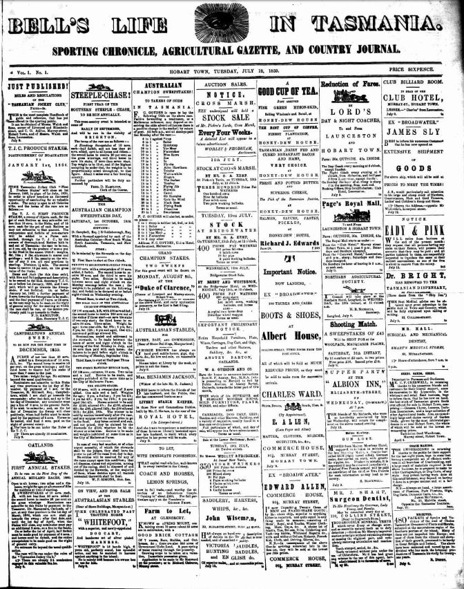 Image of journal Bell's Life in Tasmania: sporting chronicle,agricultural gazette, and country journal, Hobart, Tasmania, 1859